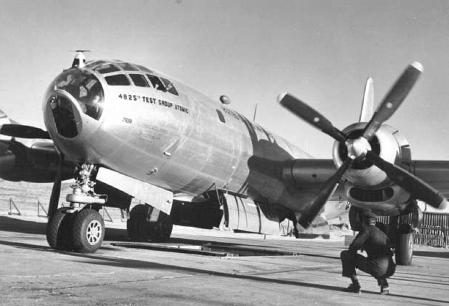 4825th TG B-50 at Kirtland Air Force Base Bomb Loading Pit